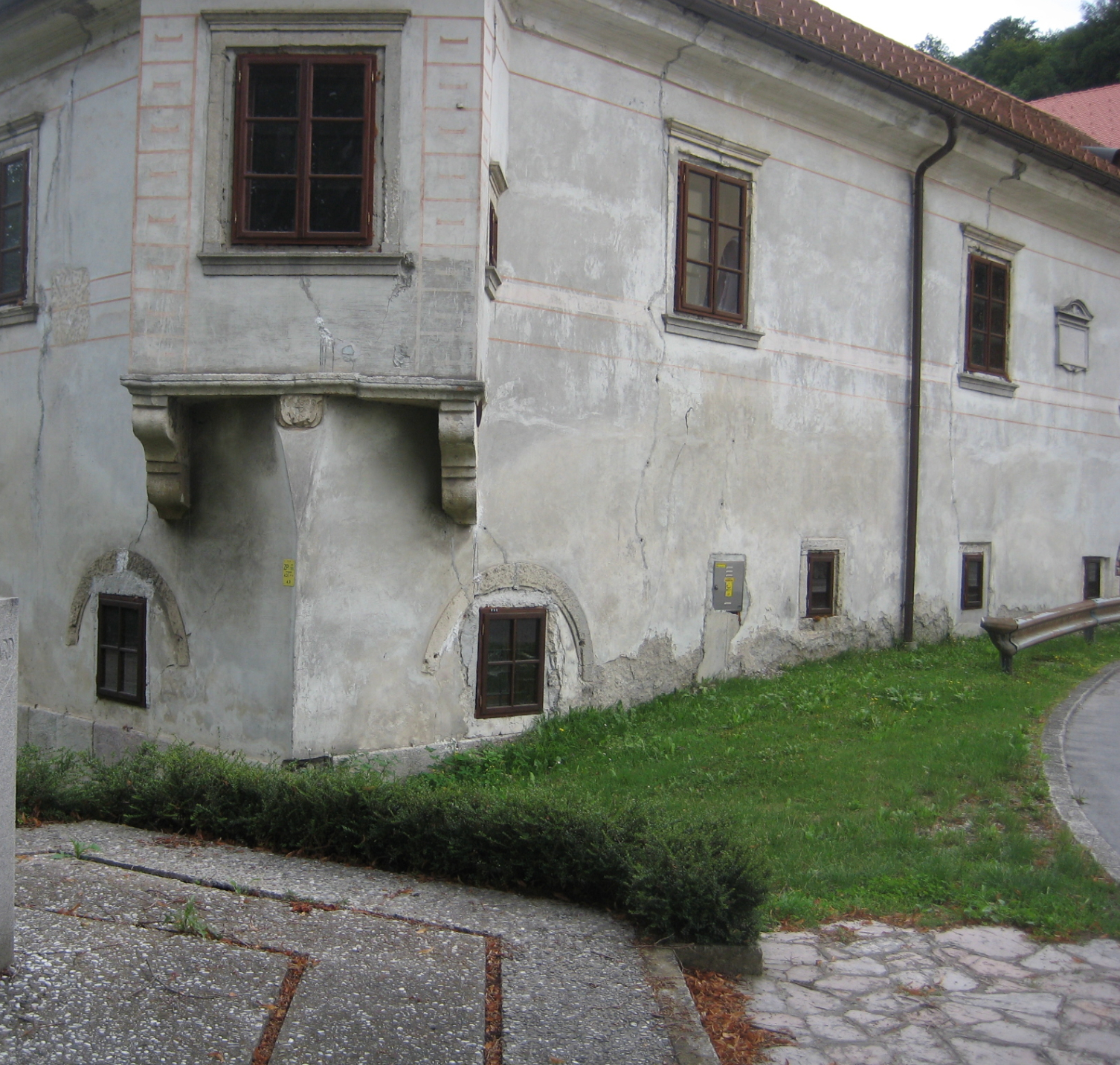 Janez Vajkard Valvasor house (and place of death) in Krško, Slovenia